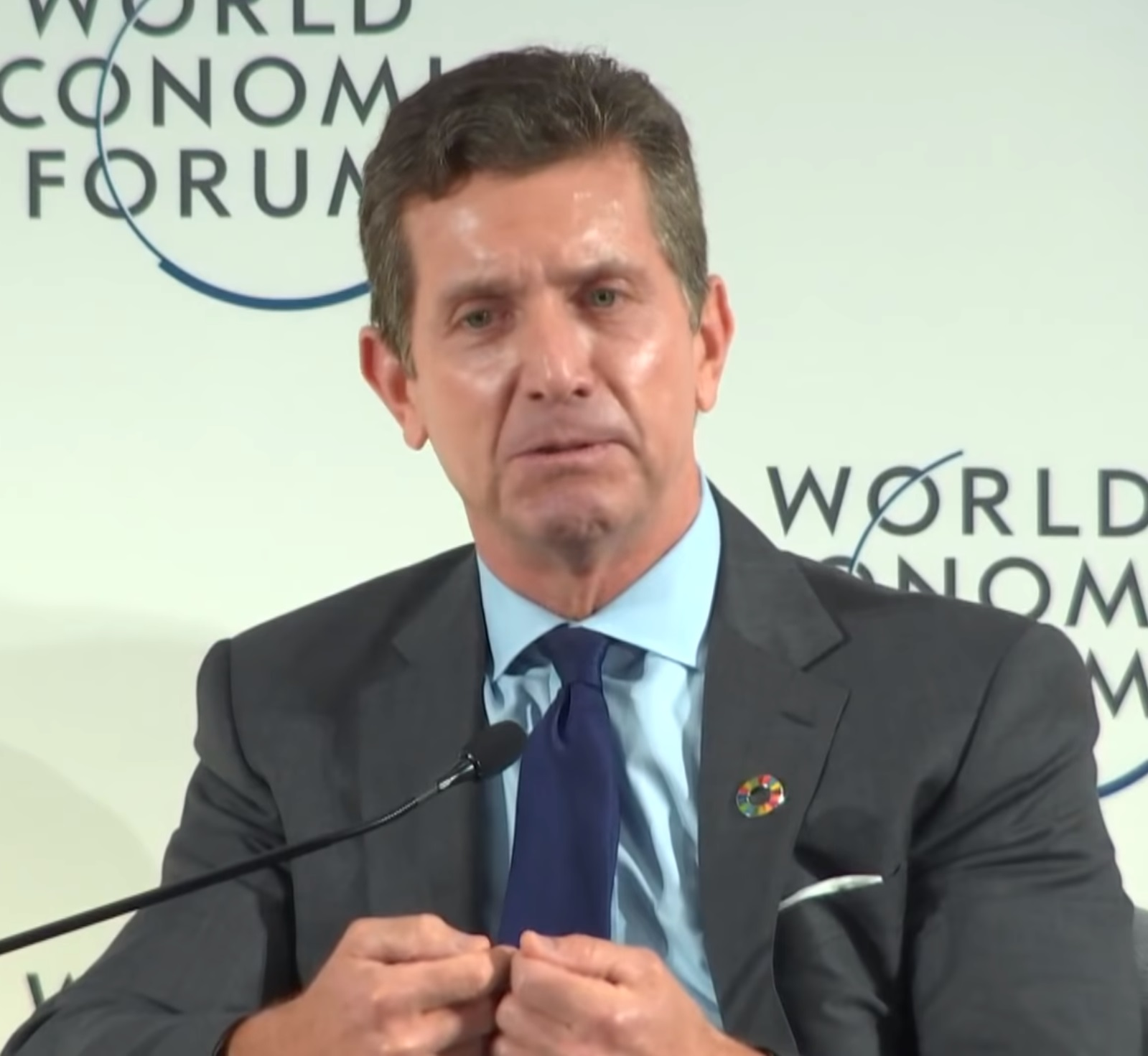 World Economic Forum on Sustainable Development in the Fourth Industrial Revolution Given the speed at which technologies are reshaping economies and societies, how can leaders embrace disruption and accelerate sustainable development outcomes? - Mitchell Baker, Executive Chairwoman of the Board, Mozilla, USA - Alex Gorsky, Chairman and Chief Executive Officer, Johnson & Johnson, USA - Sheikh Hasina, Prime Minister of Bangladesh - Enrique Peña Nieto, President of Mexico - Mark Rutte, Prime Minister of the Netherlands Chaired by - Gustau Alegret, Director, US News, NTN24, USA